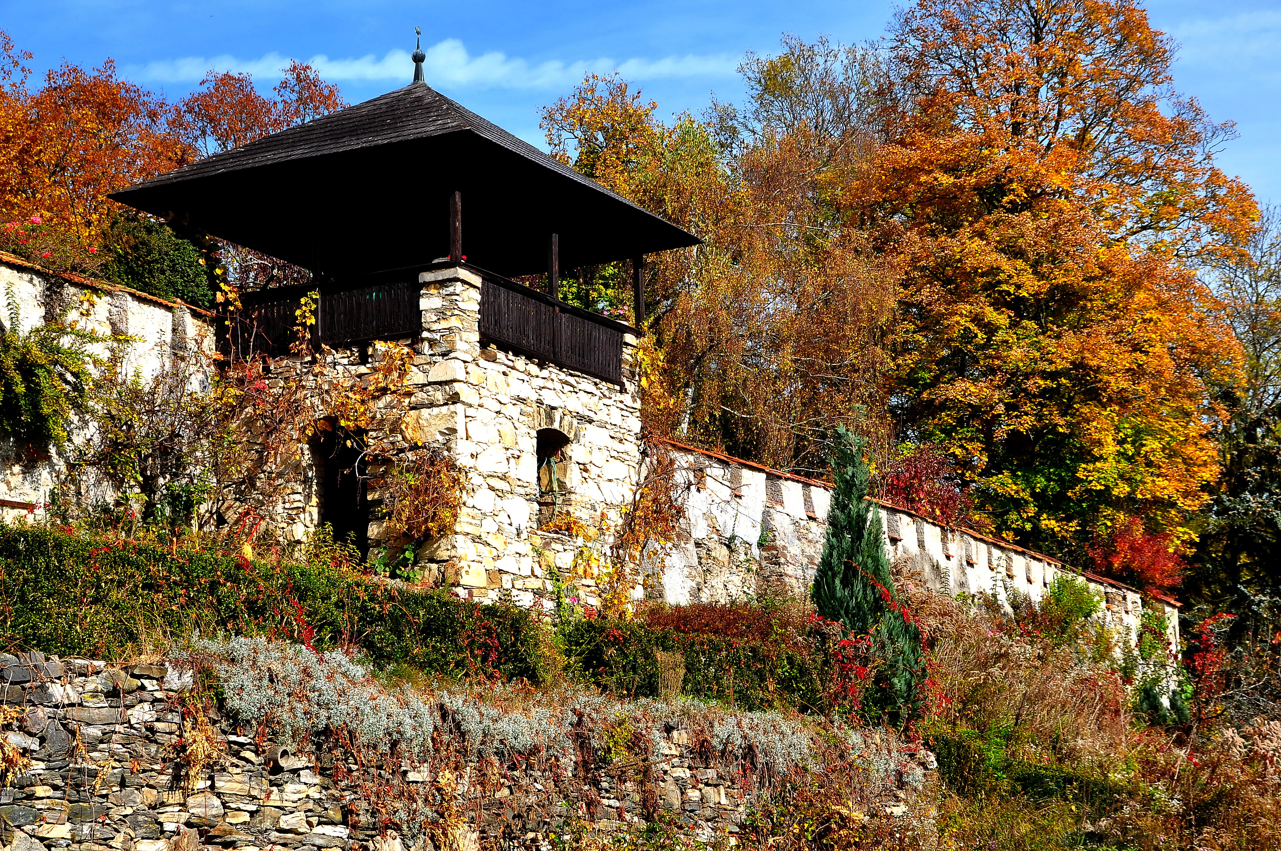 Look-out in the surrounding wall of “Castle Tentschach”, situated in the 14th district Woelfnitz of the Carinthian capital Klagenfurt on the Lake Woerth, Carinthia, Austria